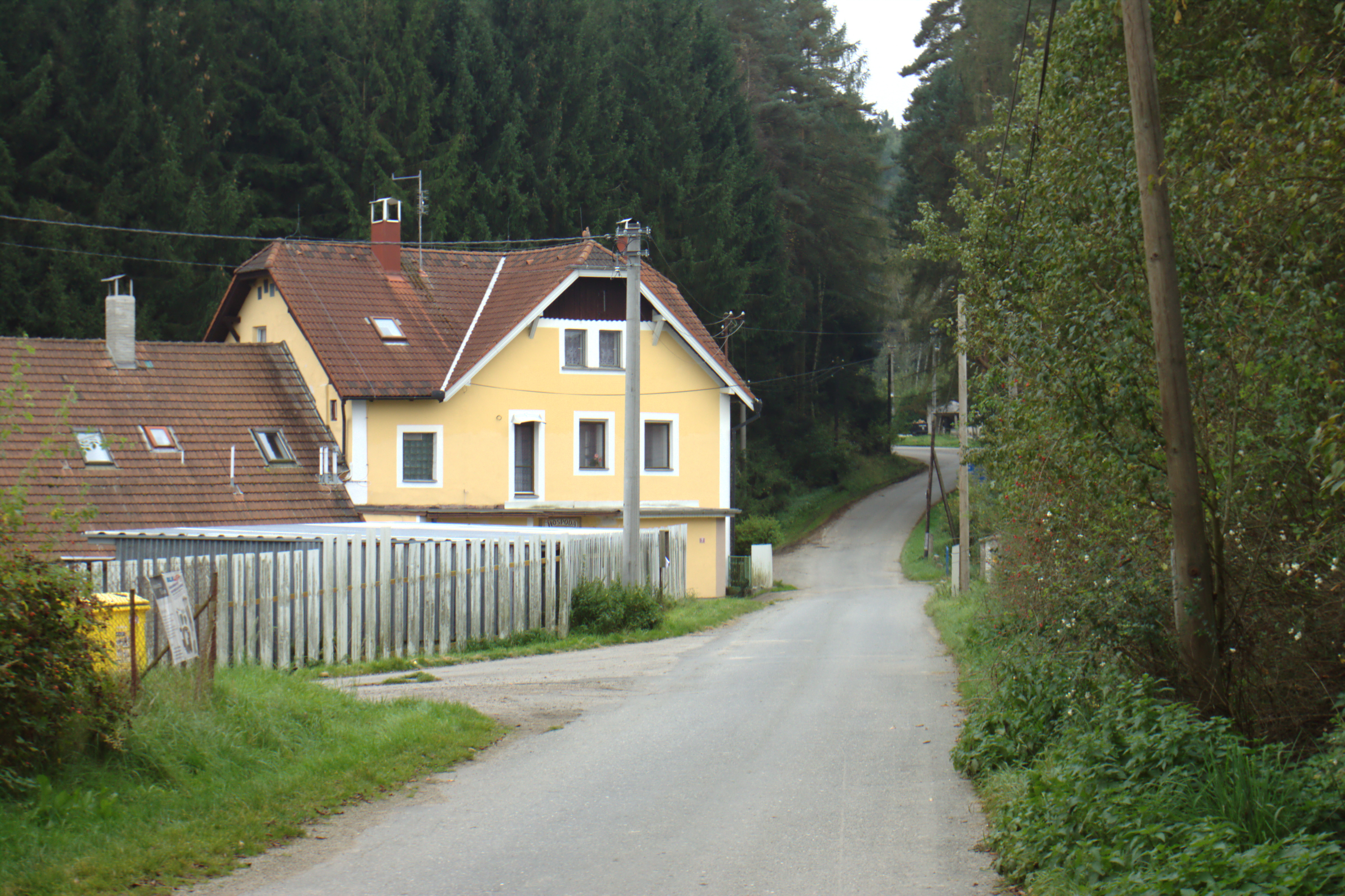 Main road in Roudný near Zvěstov, former workers'/miners' settlement, Central Bohemian Region, CZ